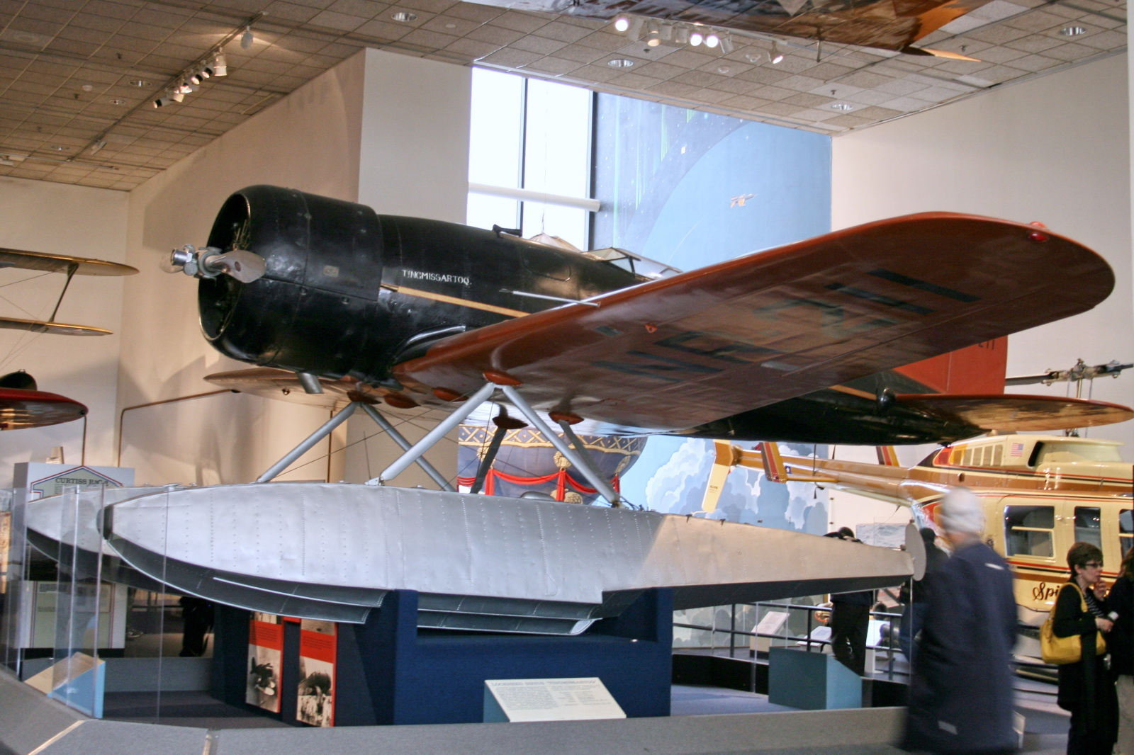 Every possible space in the aircraft was utilized, including the wings and floats, which contained the gasoline tanks. There was plenty of emergency equipment in case the Lindberghs had to make a forced landing in the frozen wilderness. From New York, the Lindberghs flew up the eastern border of Canada to Hopedale, Labrador. From Hopedale they made the first major overwater hop, 650 miles to Godthaab, Greenland, where the Sirius acquired its name—Tingmissartoq, which in Eskimo means "one who flies like a big bird." After crisscrossing Greenland to Baffin Island and back, and then on to Iceland, the Lindberghs proceeded to the major cities of Europe and as far east as Moscow, down the west coast of Africa, and across the South Atlantic to South America. where they flew down the Amazon, and then north through Trinidad and Barbados and back to the United States. They returned to New York on December 19, having traveled 30,000 miles to four continents and twenty-one countries. The information gained from the trip proved invaluable in planning commercial air transport routes for the North and South Atlantic. The aircraft was in the American Museum of Natural History in New York City until 1955. The AirForce Museum in Dayton, Ohio, then acquired it and transferred it to the Smithsonian in 1959.